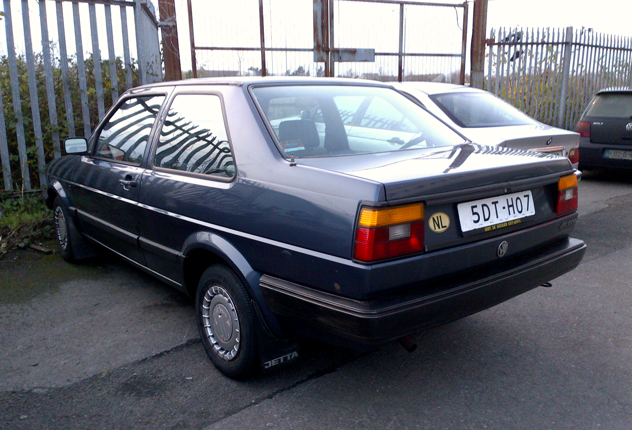 1988-1990 Volkswagen Jetta coupé with temporary dutch export plates.